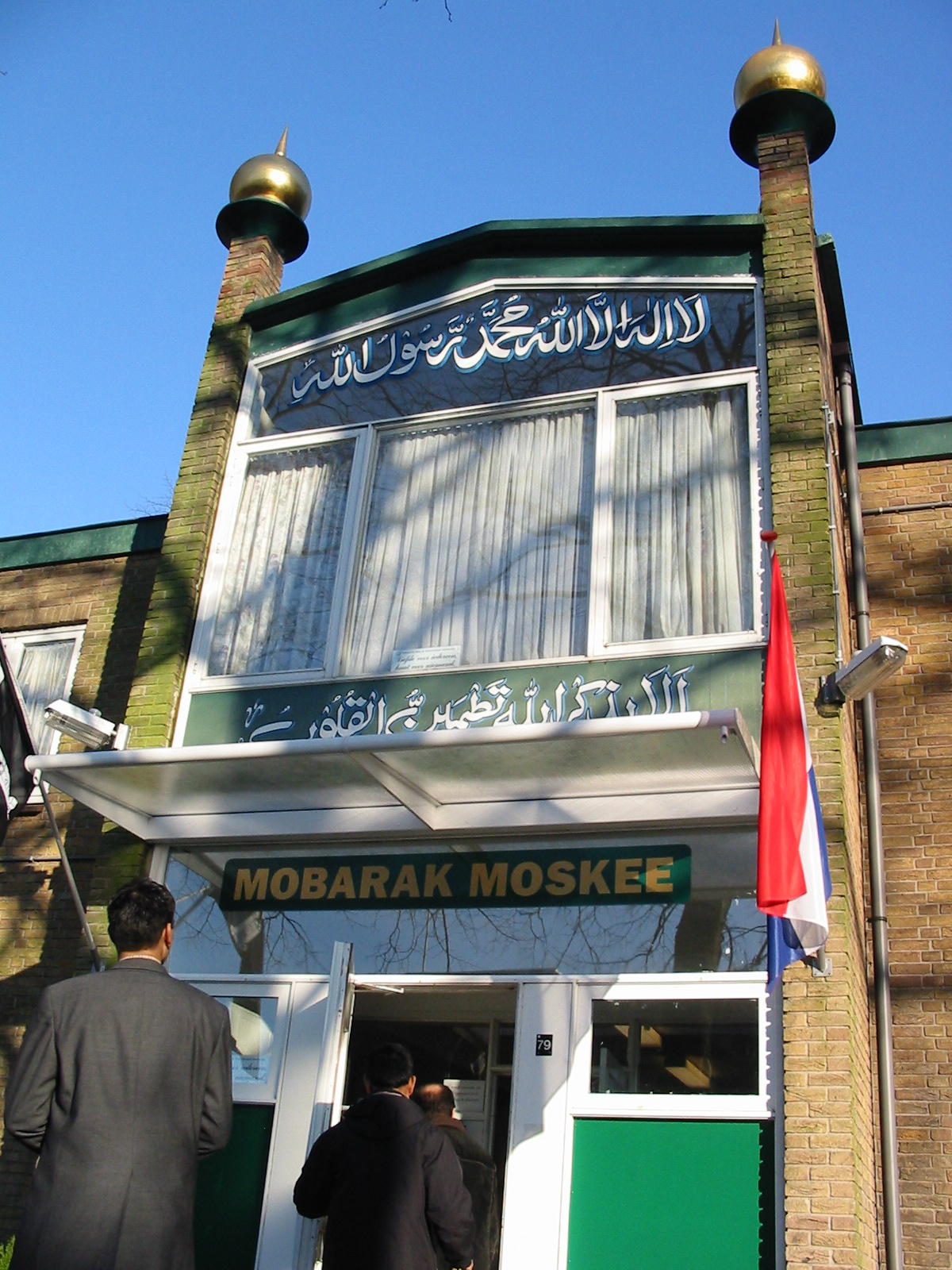 Mobarak Moskee (Mosque) Oostduinlaan Den Haag (The Hague) Netherlands. Oldest Mosque in The Hague